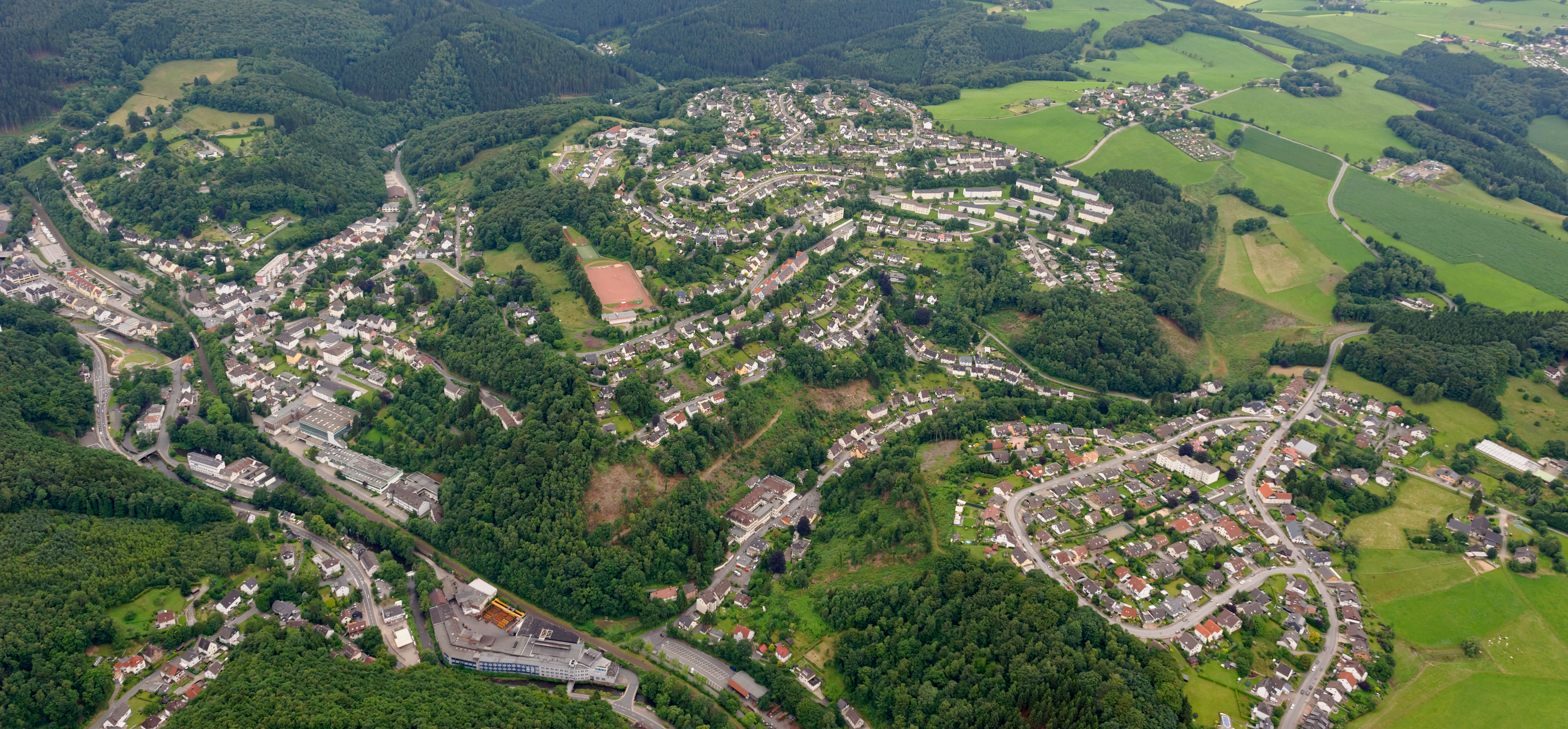 The making of this document was supported by the Community-Budget of Wikimedia Germany. Übersicht der Kernstadt von Schalksmühle